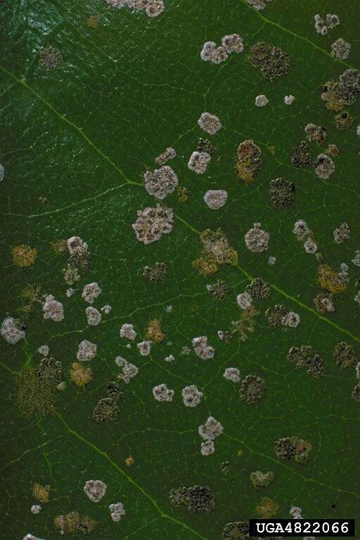 Infestation of the algal leaf spot (Cephaleuros virescens) on ther southern magnolia (Magnolia grandiflora); Green-orange algal spots or "green scruf" on leaf surface. The grayish-white and darker "crusts" are lichens of the genus Strigula resulting from fungal colonization of the alga; family Trentepohliaceae